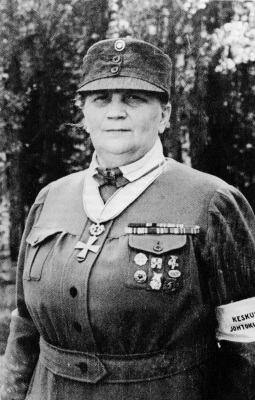 Head of the Lotta Svärd organisation Fanni Luukkonen. She was head of the organisation from 1929 to 1944.